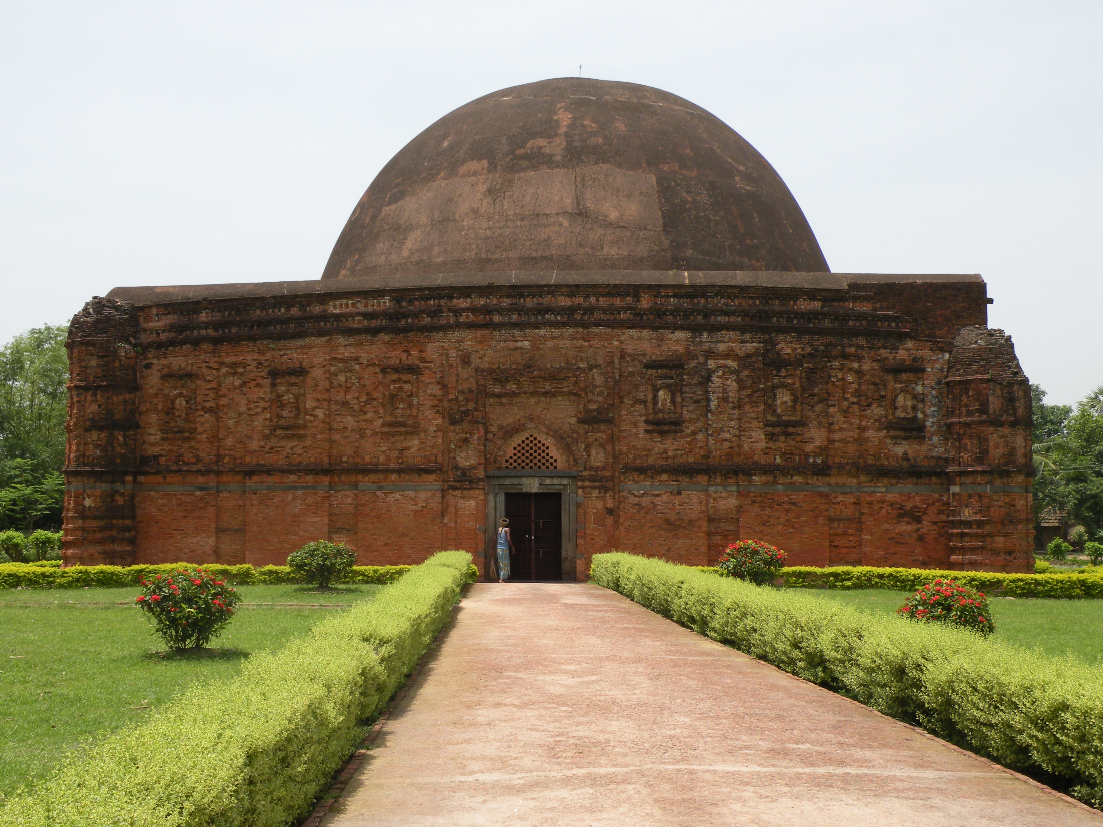 Eklakhi Mausoleum,was built between 1412-15 AD and did cost one lakh rupees towards its construction.